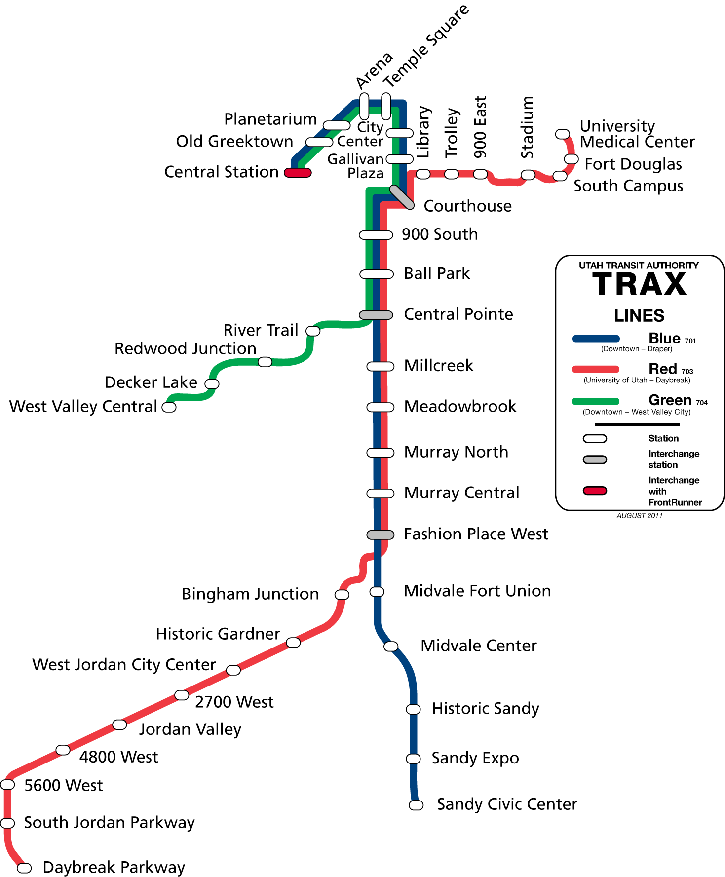 A map of the light rail system in Salt Lake City, Trax, of the Utah Transit Authority. This map will be rendered obsolete by 2013, when the airport extension of the green line opens.